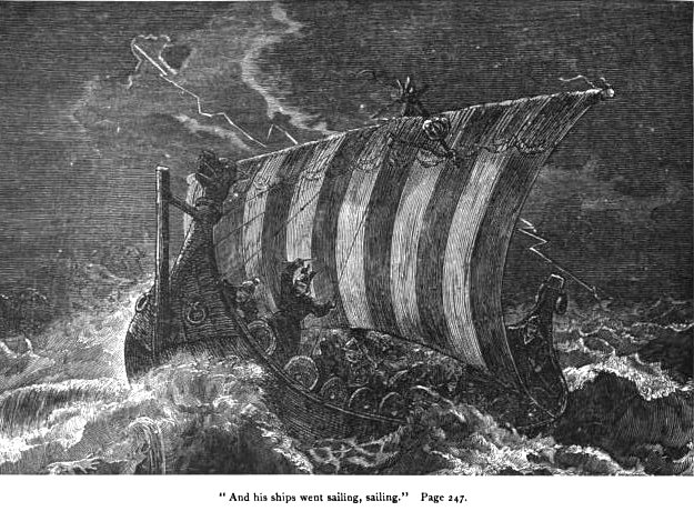 Illustration for Henry Wadsworth Longfellow's "The Saga of King Olaf" from Tales of a Wayside Inn. Titled "And his ships went sailing, sailing," from section II: "King Olaf's Return." From The Complete Poetical Works of Henry Wadsworth Longfellow (Boston: Houghton, Mifflin & Company, 1899).